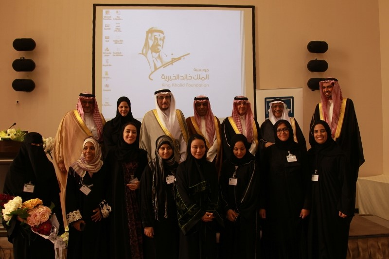 Pearl Initiative Student Case Study Competition KSA Award Ceremony, Kingdom of Saudi Arabia, Riyadh, May 2013